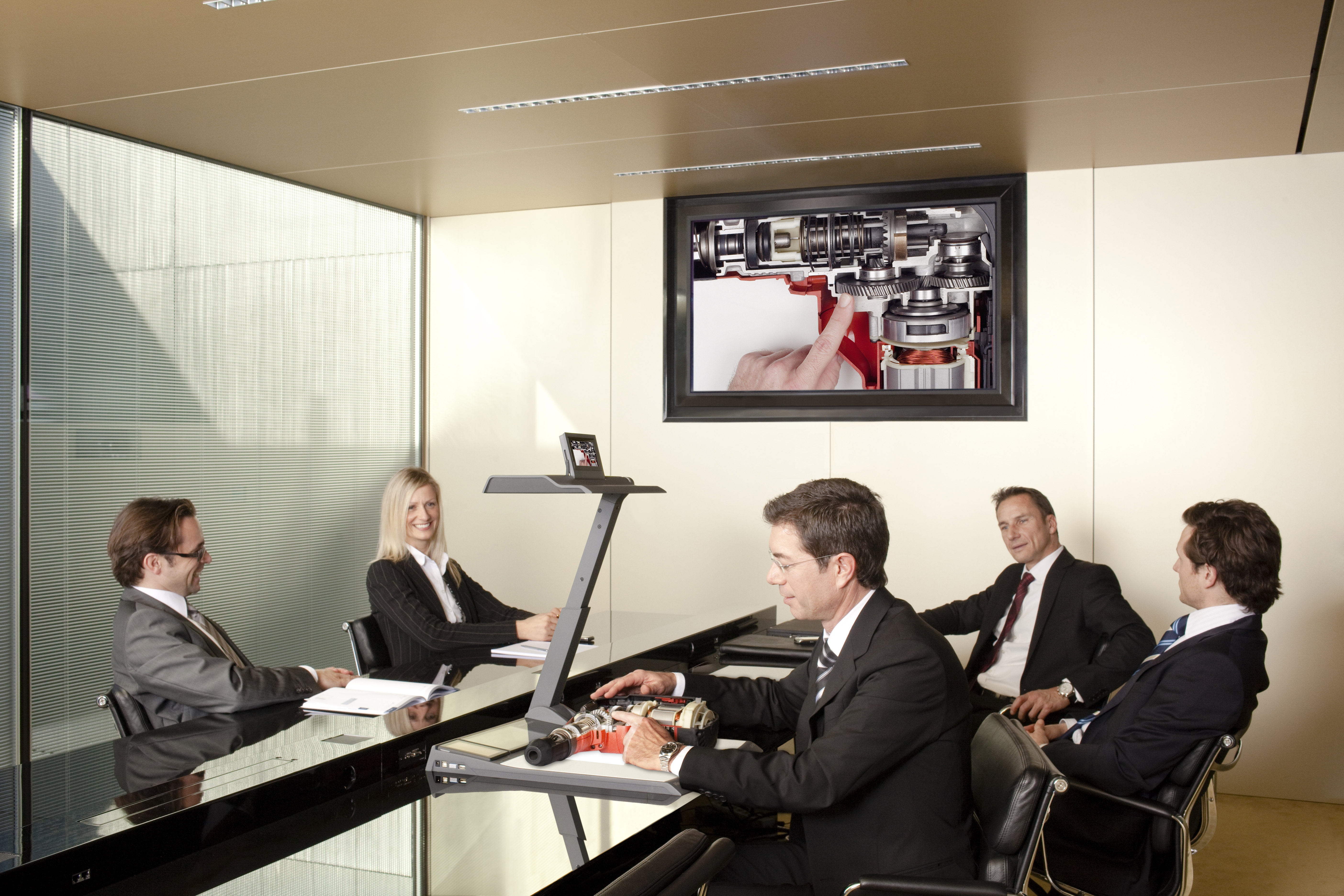 'Live' image presentation using a WolfVision Visualizer